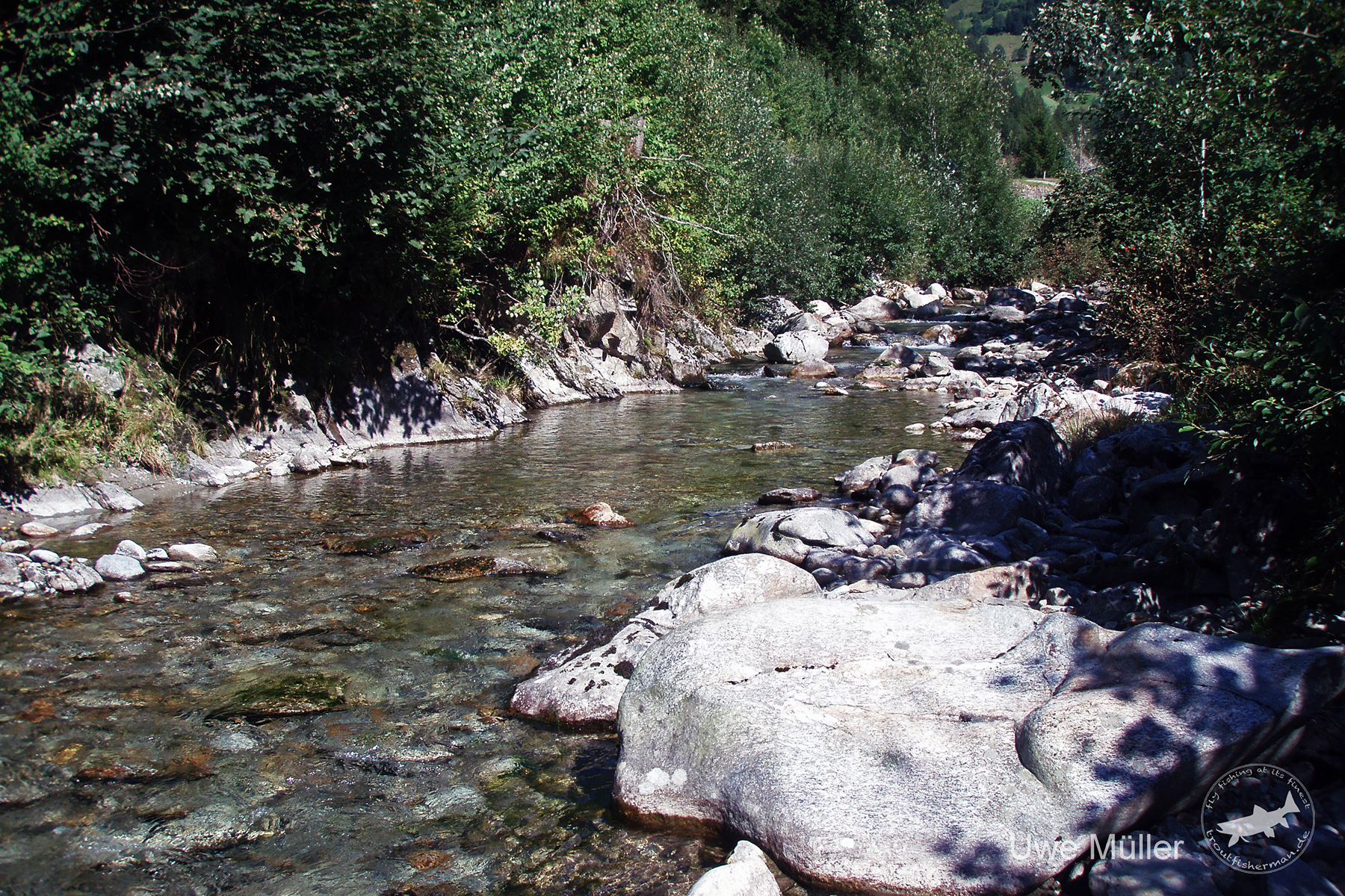 Trift River